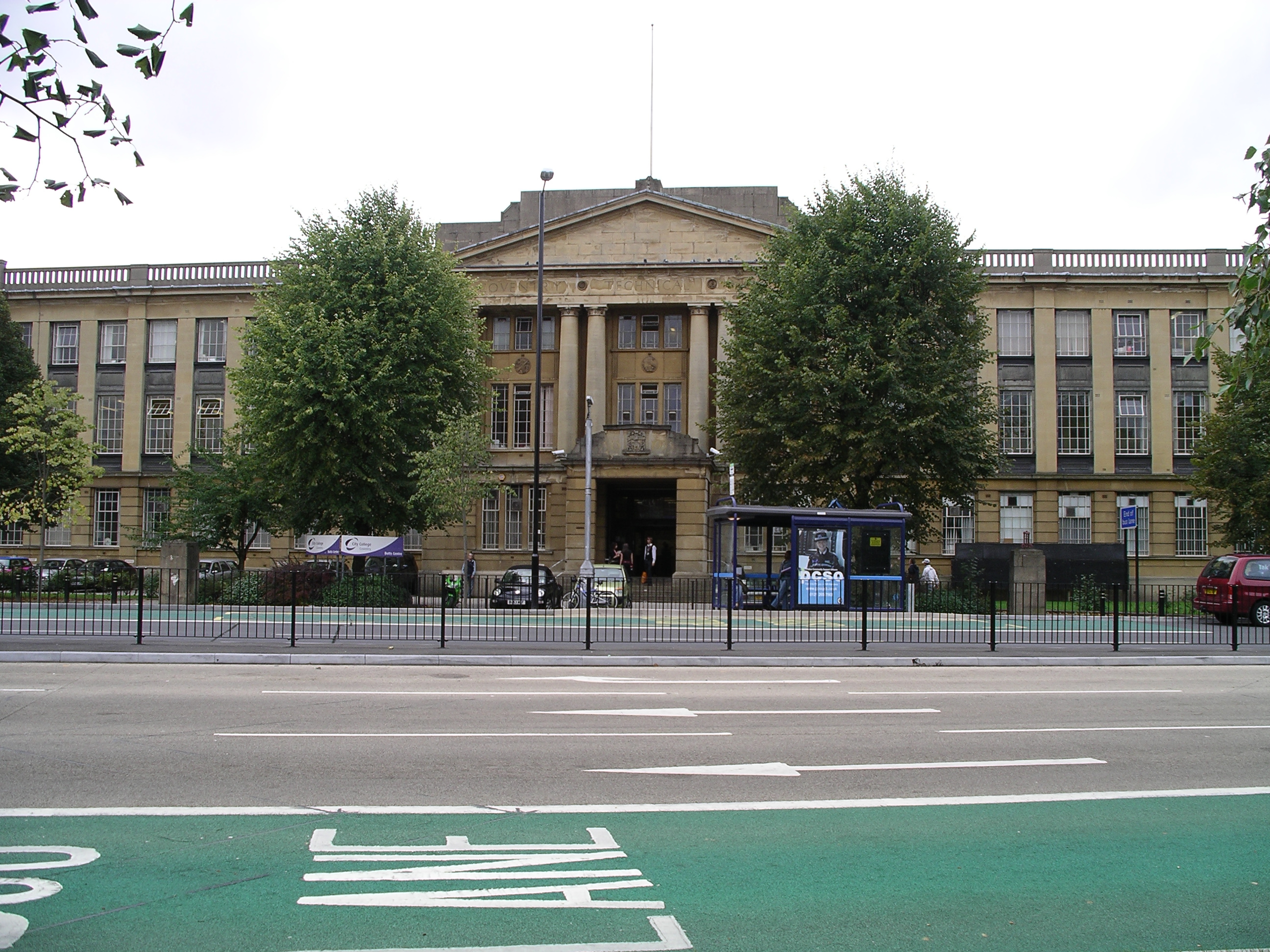 Photo taken on 27th September 2006 of the Butts College, in Spon End, Coventry, England.